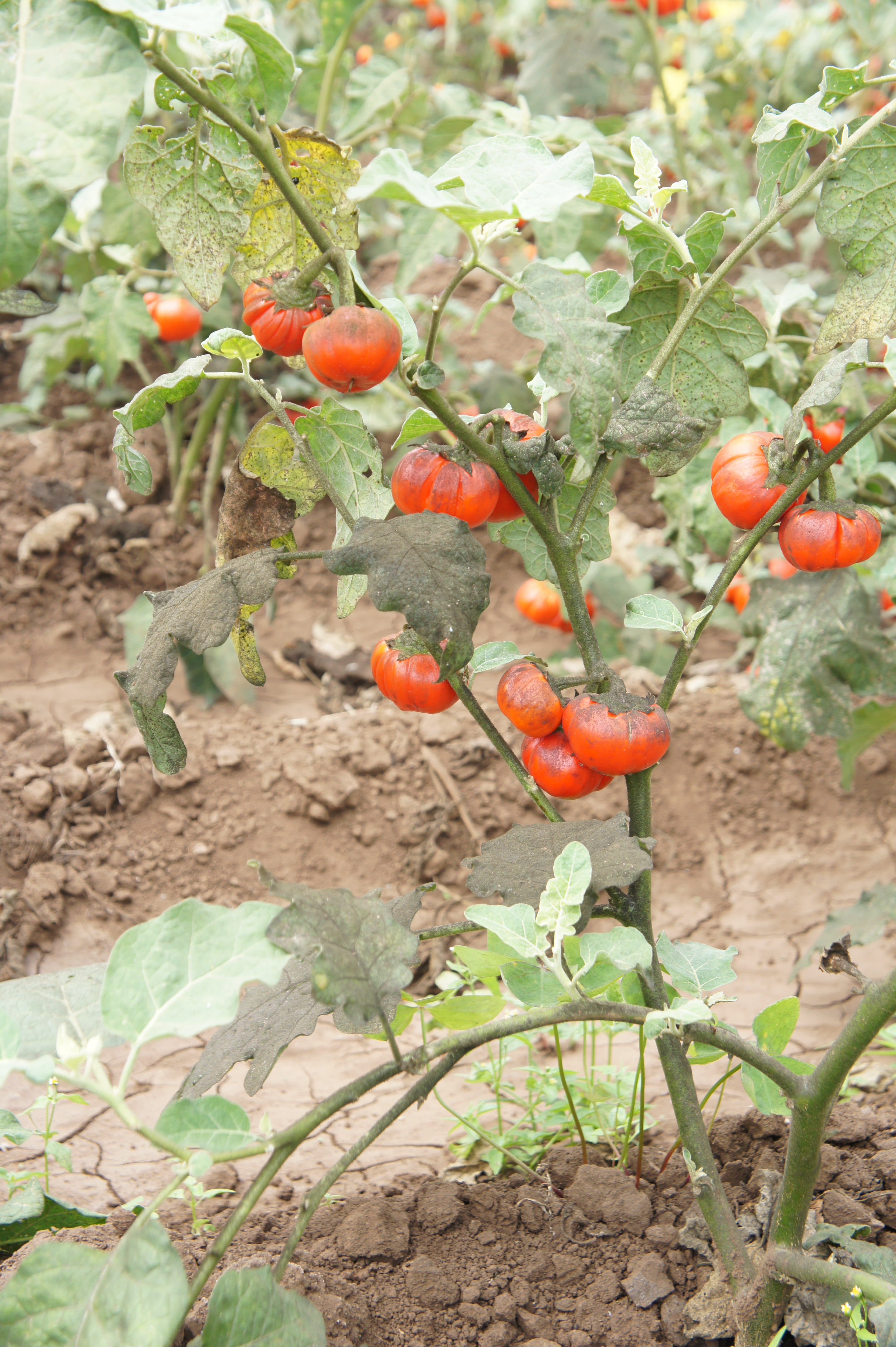 Solanum aethiopicum for seeds, Arusha, Tanzania